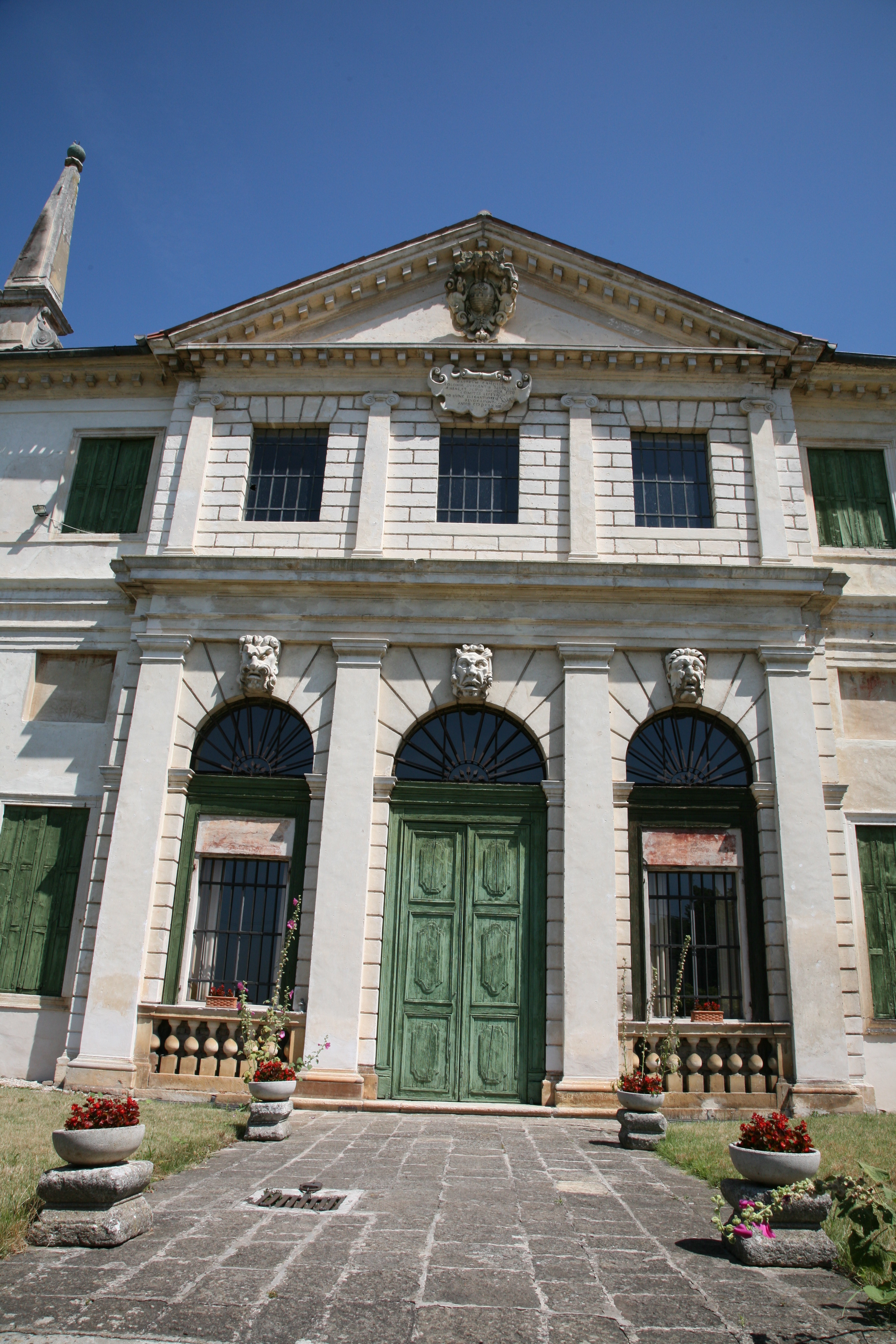 Villa Repeta is an italian villa. The original villa by Andrea Palladio was destroyed by fire.